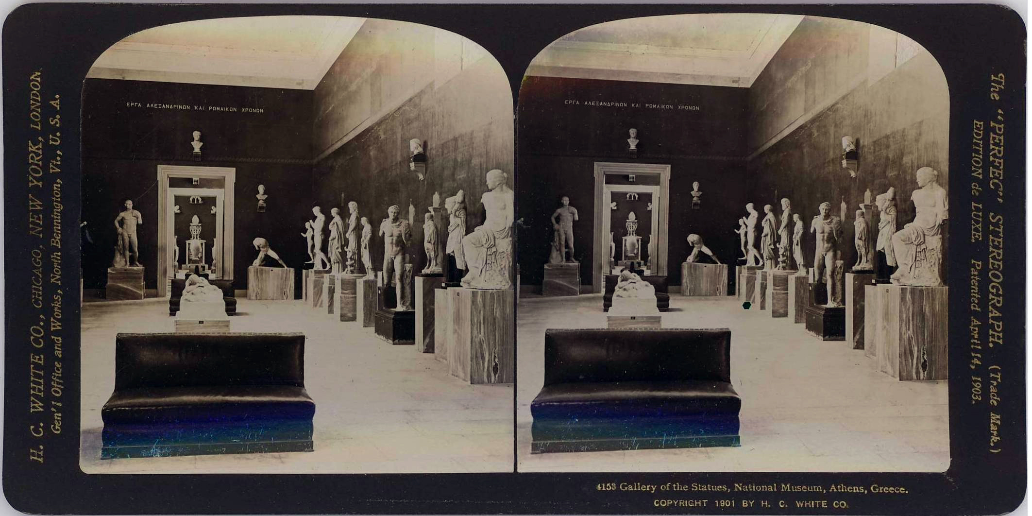 View of the interior in the National Archaeologic Museum in athens, 1901